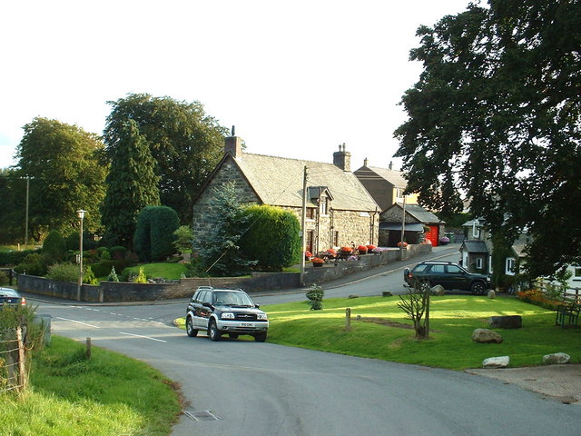 Sarnau village.